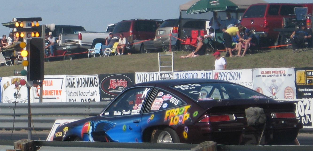 Tree counting down to the start. Shot at SIR, drag strip 13km from Saskatoon, SK,23 Aug 2008.